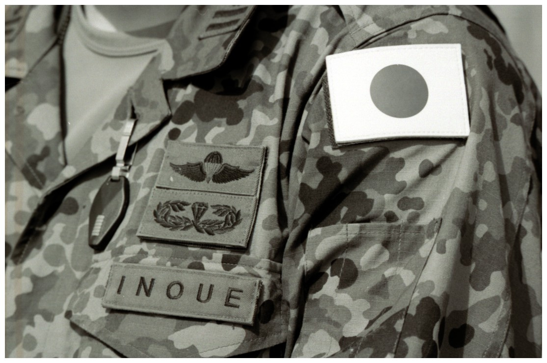 Close up view of the uniform of a Japan Self-Defense Force Major Inoue serving in Baghdad, Iraq (April 2005). Photo by Peter Rimar.